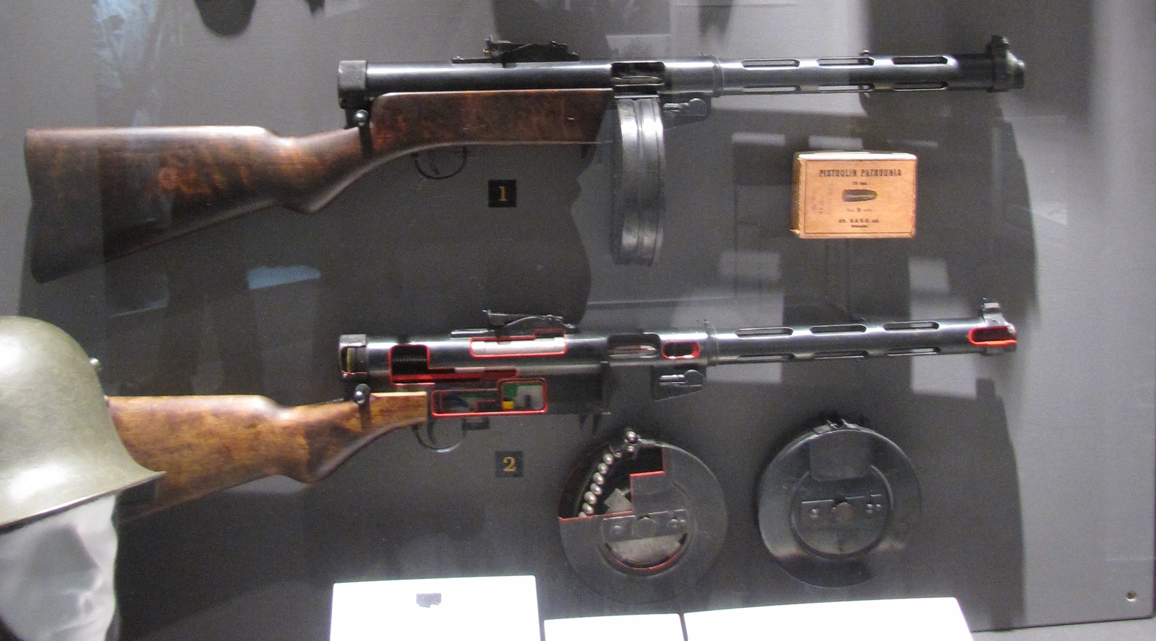 9 mm Suomi KP/-31 submachine gun with drum magazine and ammunition package, below a sectioned example as well as a sectioned and normal drum magazine. Cropped from File:Finnish army weapons and equipment.JPG.